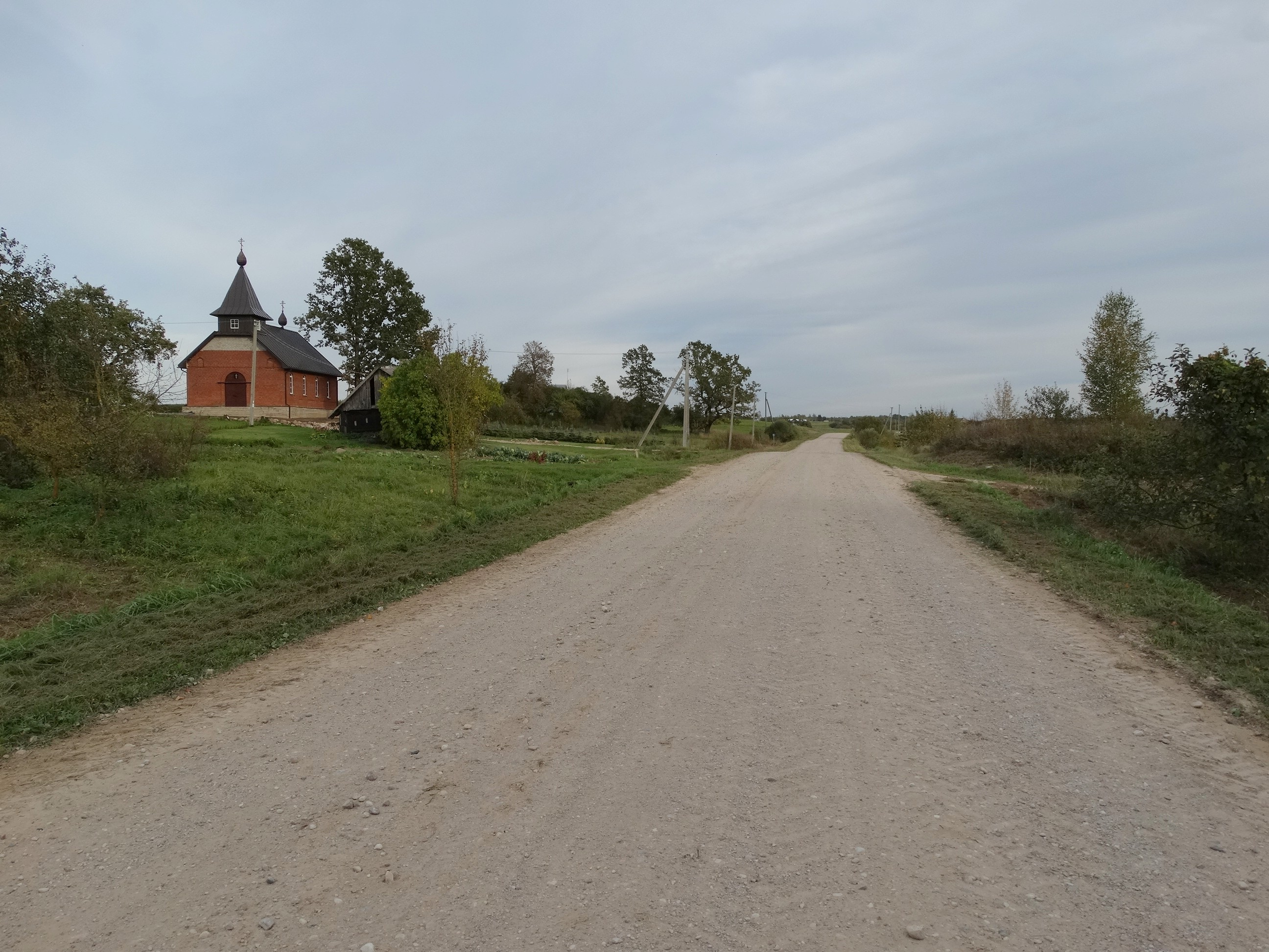 Orthodox Church of Old Believers in Dūdiškės, Kaišiadorys District, Lithuania